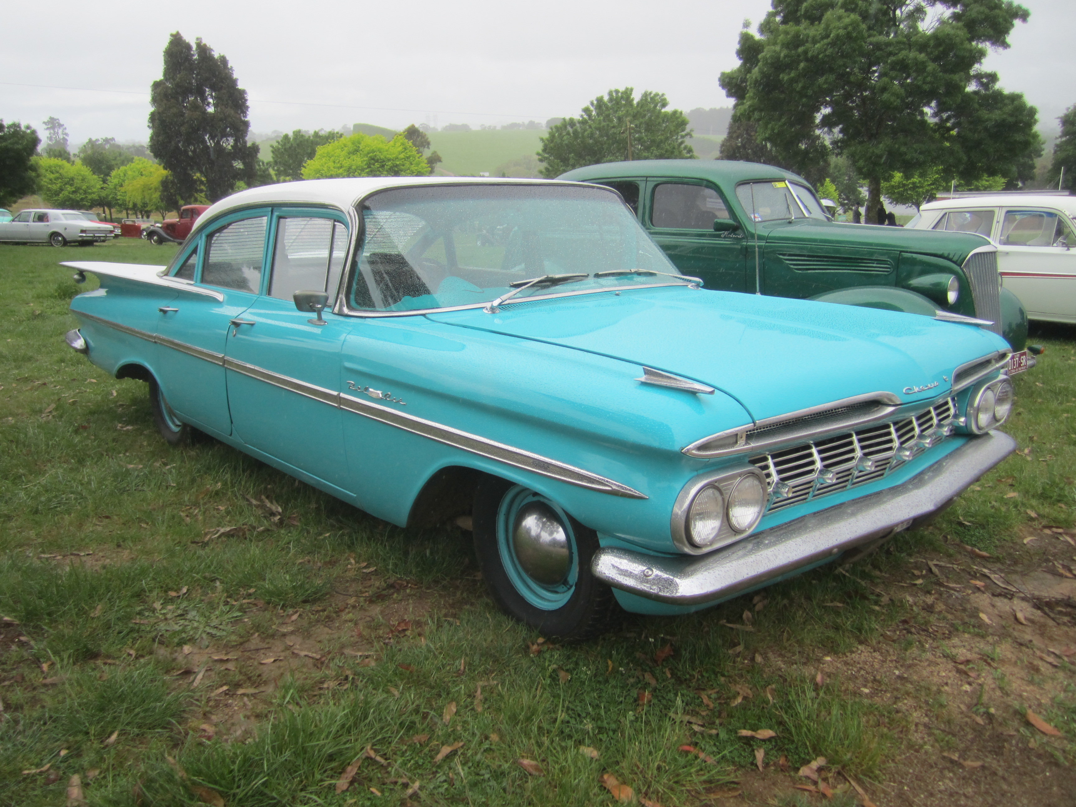 A new car for 1959 with flat wing shaped tail fins. Available in Biscayne, Bel Air and Impala. Bodys; 2 and 4 door Sedan, 2 and 4 door Hardtop, Convertible, 2 and 4 door Wagon. Engines; 235 cu in 6 cyl , 283 and 348 cu in V8s